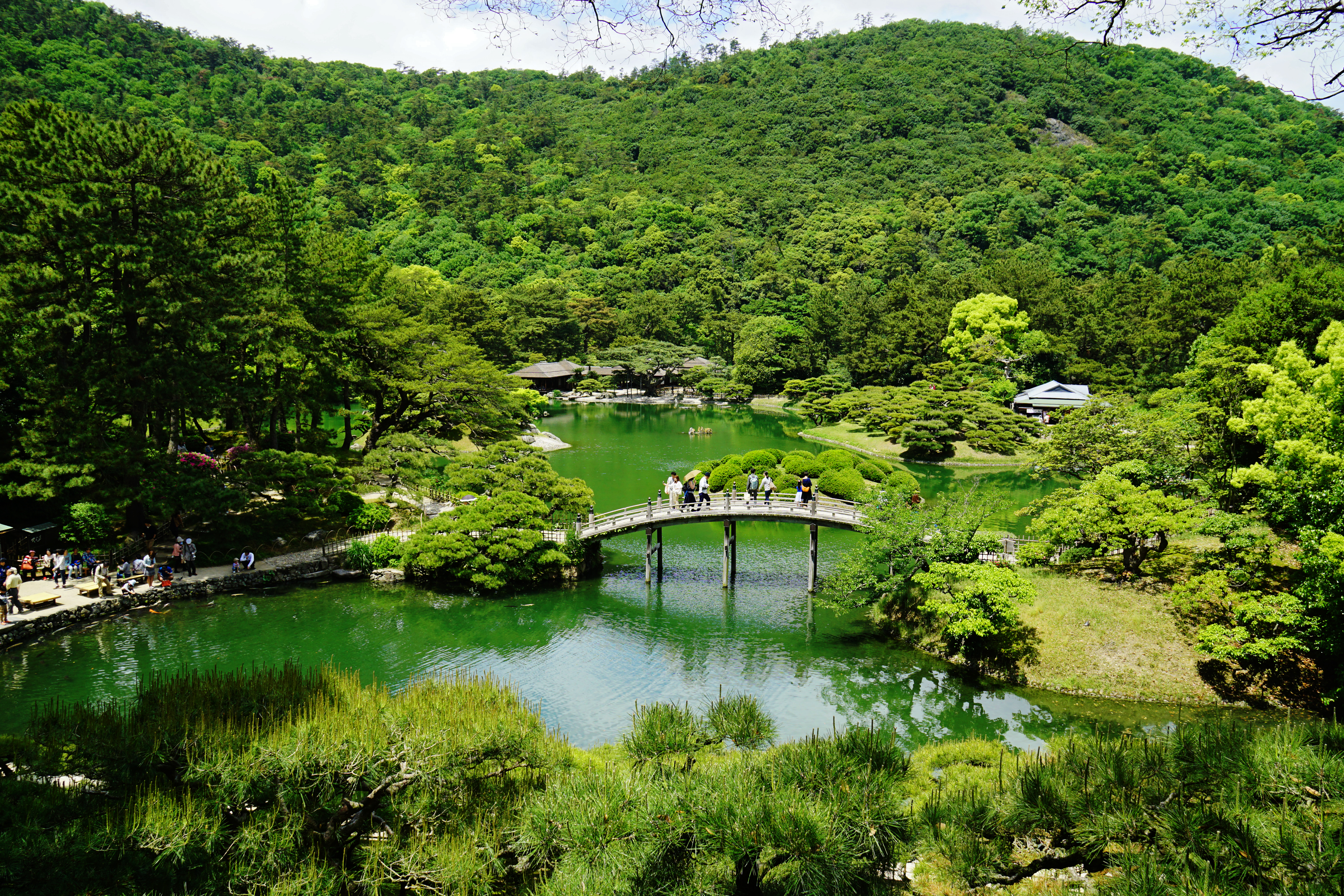 Ritsurin Garden in Takamatsu, Kagawa prefecture, Japan.